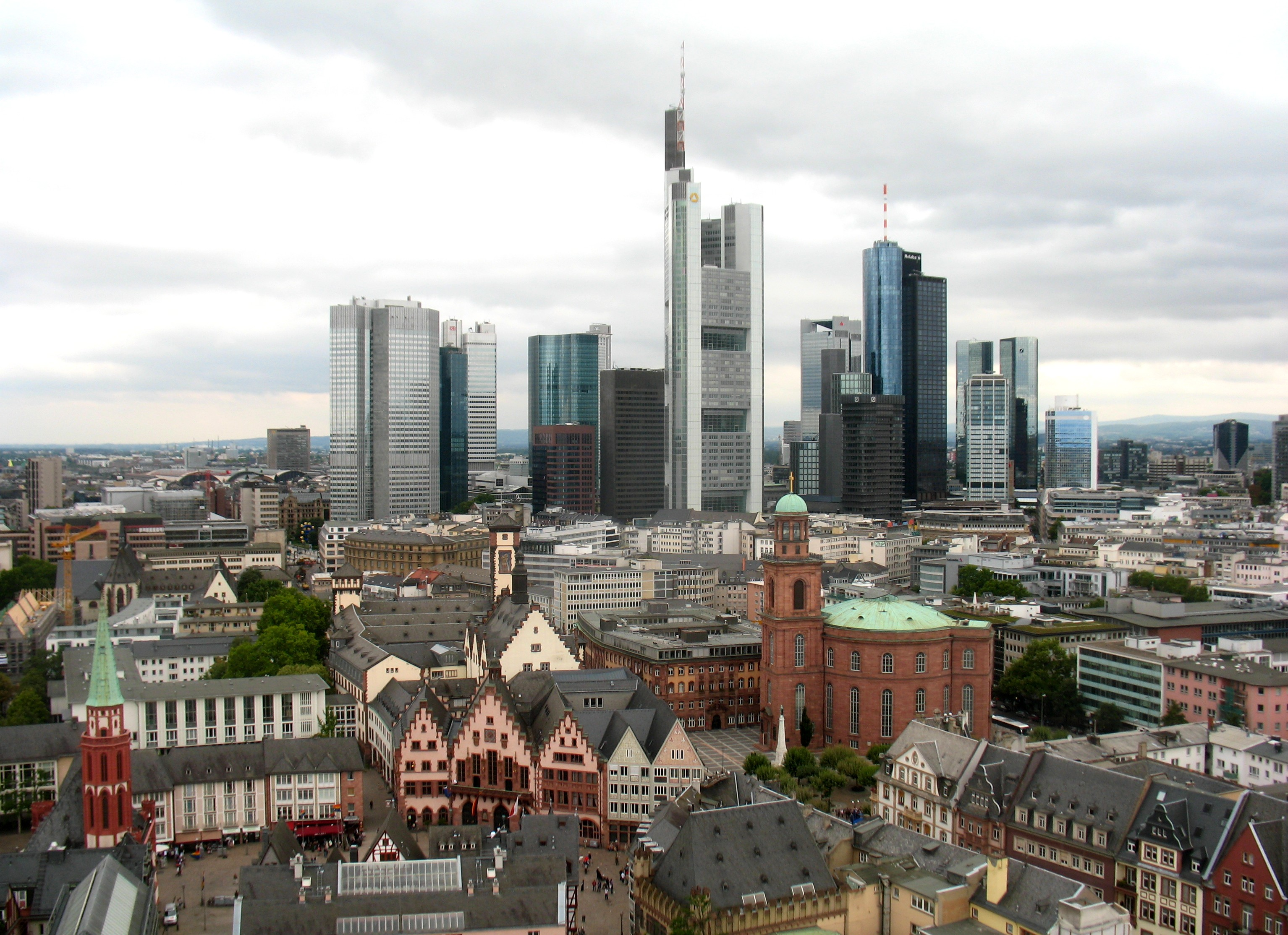 Frankfurt: City centre with skyline